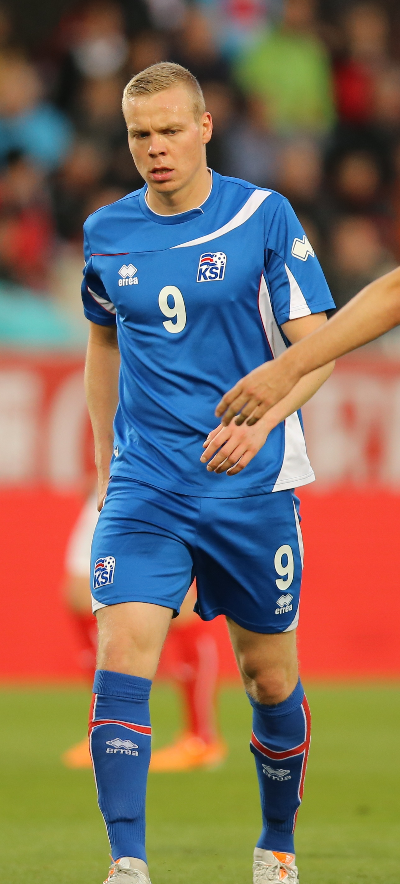 Austria - Iceland football match in Innsbruck, Austria on 2014-05-30. Austria in red, Iceland in blue.